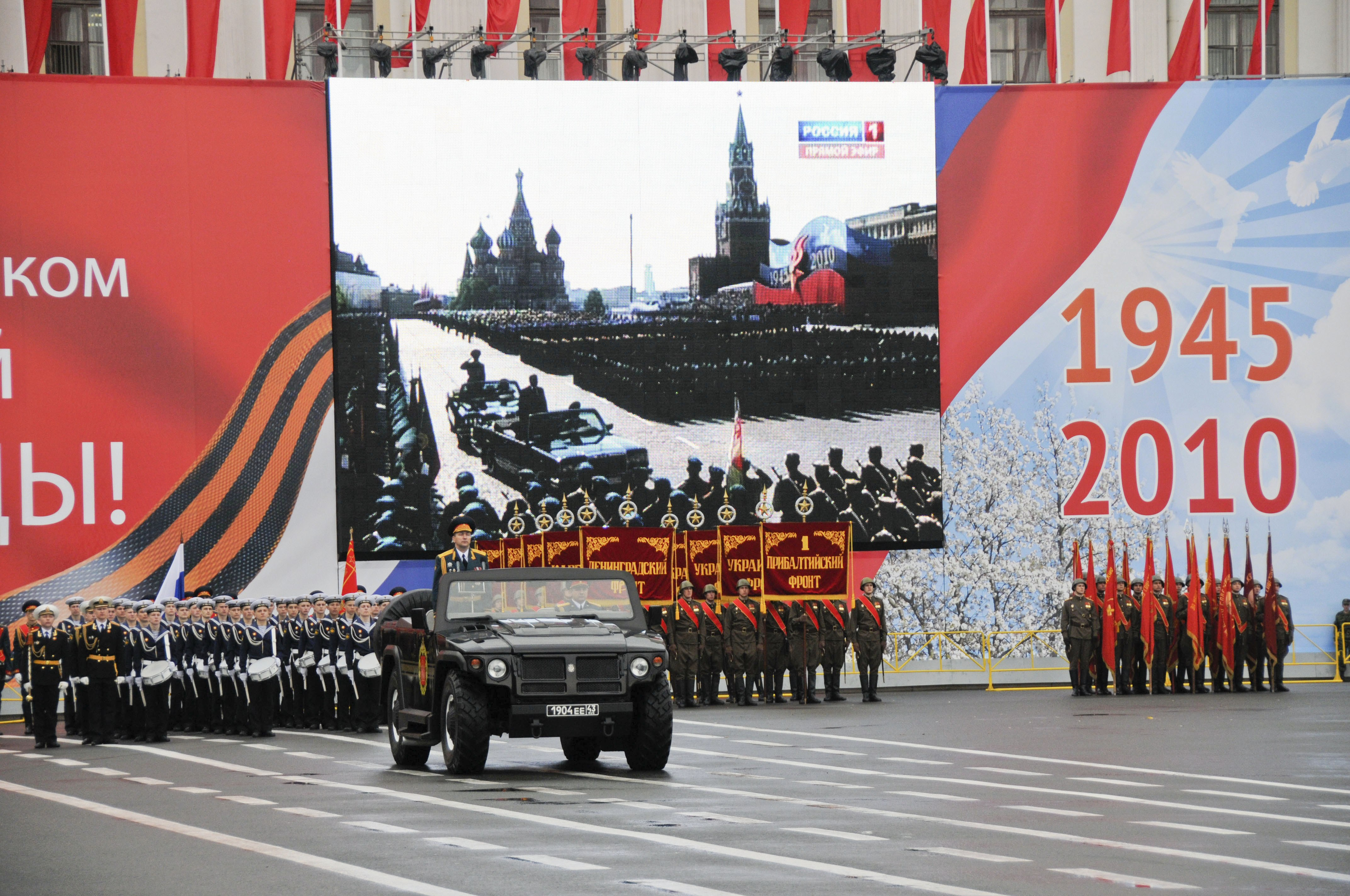 A Russian honor guard marches during the opening ceremony of the 65th anniversary of the Victory in Europe Day parade. The Russian minister of defense invited Vice Adm. Harry B. Harris Jr., commander of the U.S. 6th Fleet, and the crew of the guided-missile frigate USS Kauffman (FFG 59) to participate in the celebration.